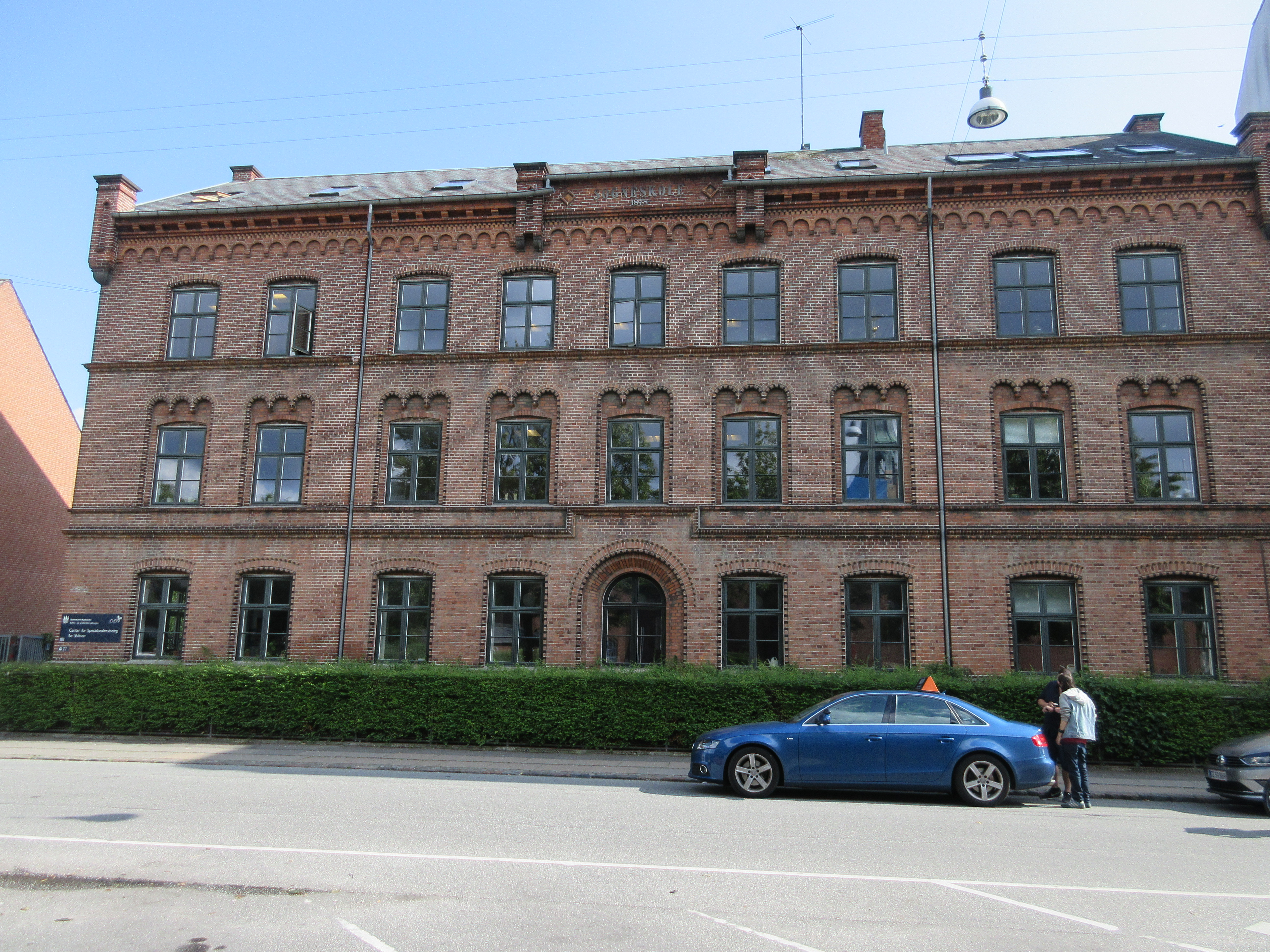 Frankrigsgades Skole at Frankrigsgade 4 in Copenhagen, Denmark